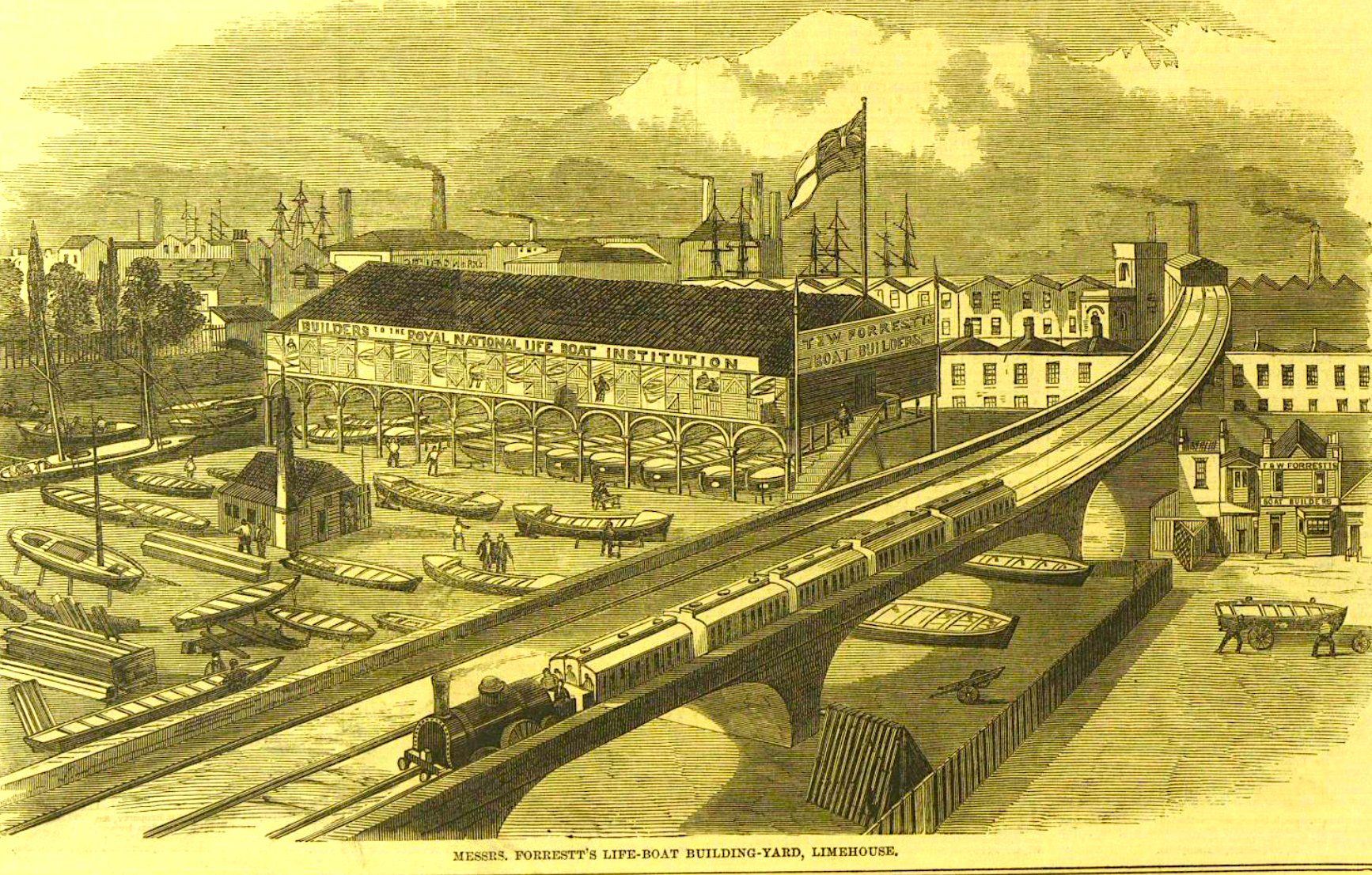 Forrestt built the lifeboats used in Victorian Britain and tested them in the Limehouse Cut, left background.